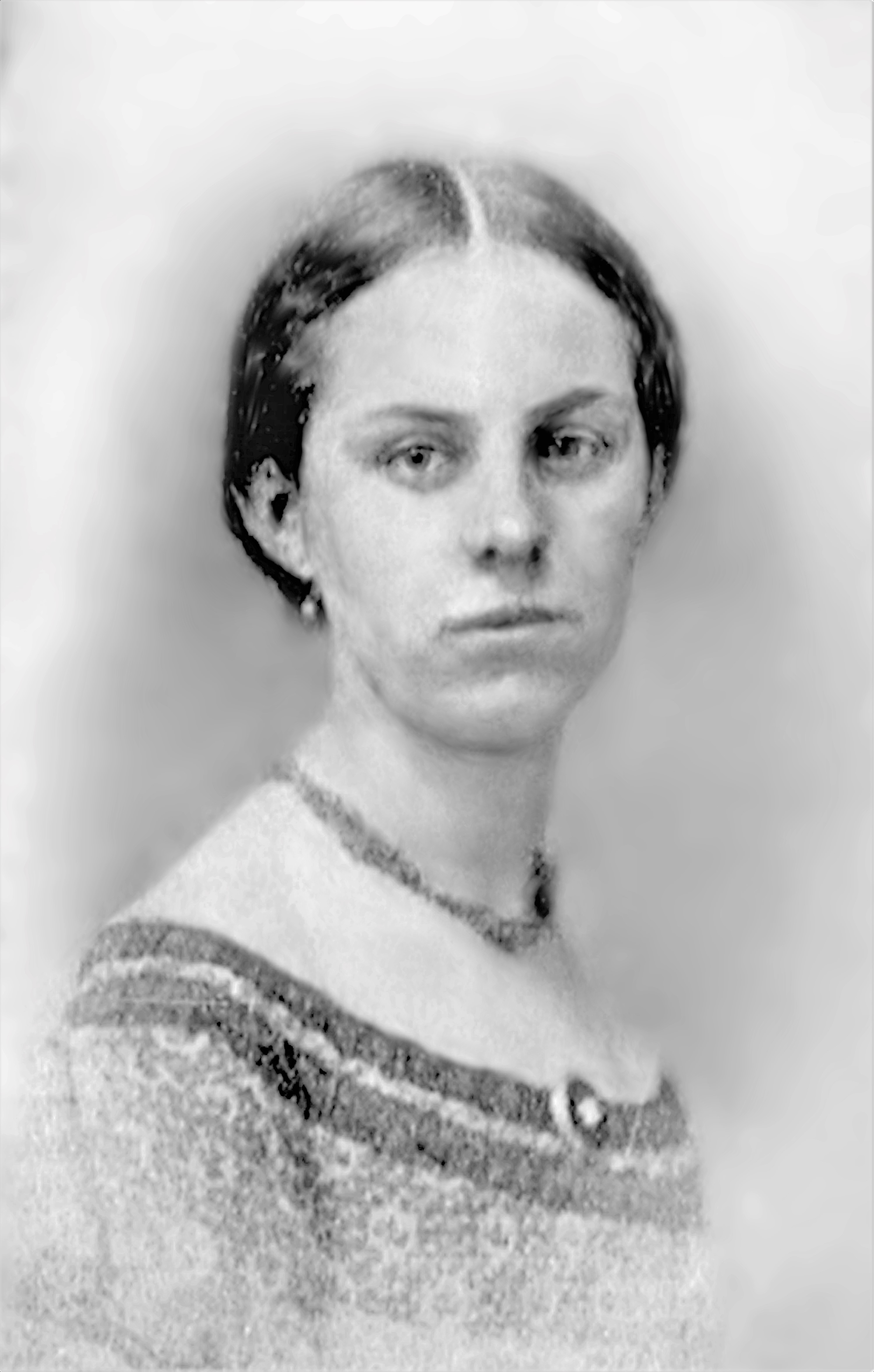 Photograph of Seraph Young, first woman to vote in Utah.